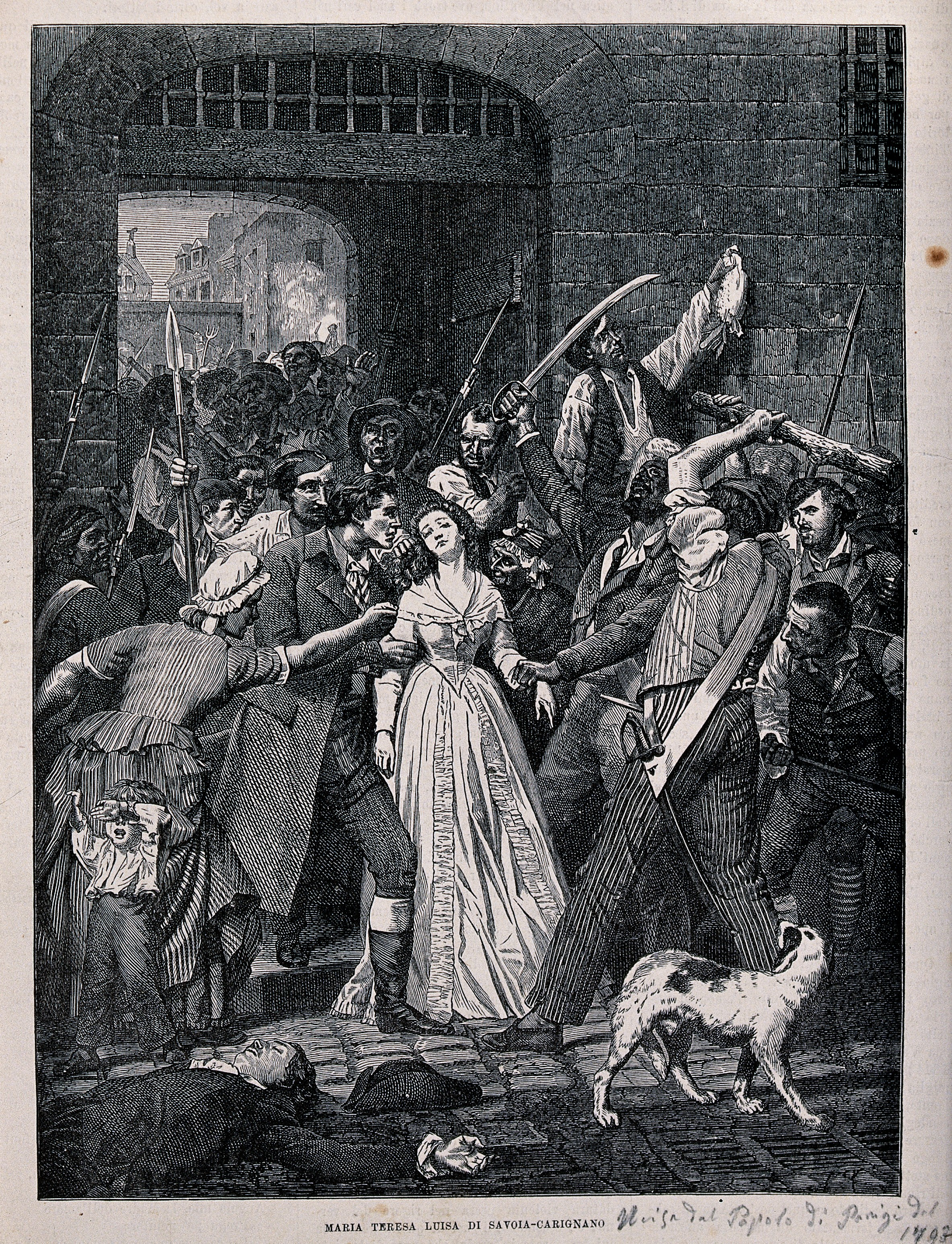 Princess Marie Louise of Savoy (former Princess of Lamballe) is lead through the prison gates and greeted by a marauding mob. Wood engraving. Iconographic Collections